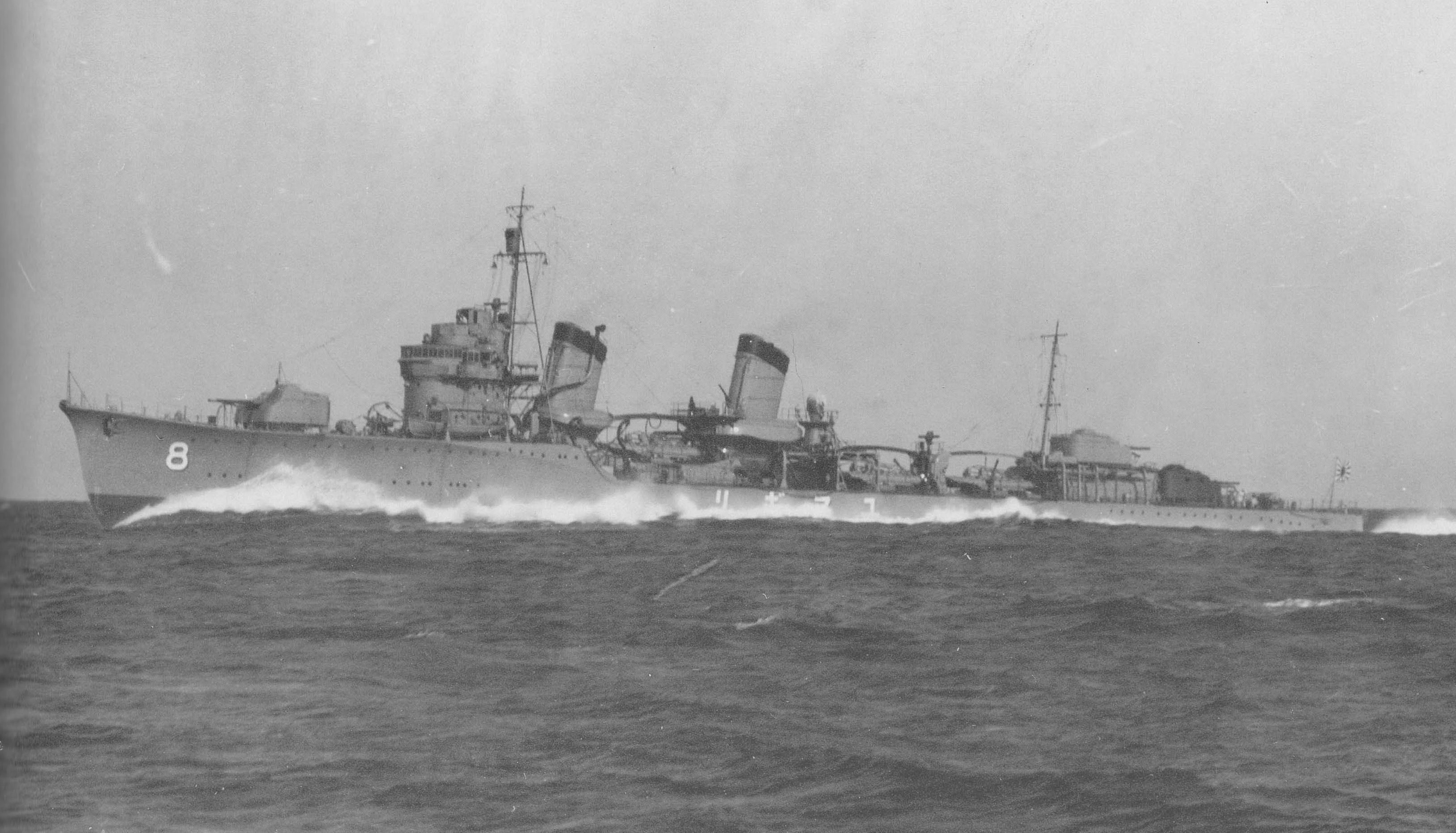 Imperial Japanese Navy destroyer Yugiri, the second Japanese warship to bear that name.